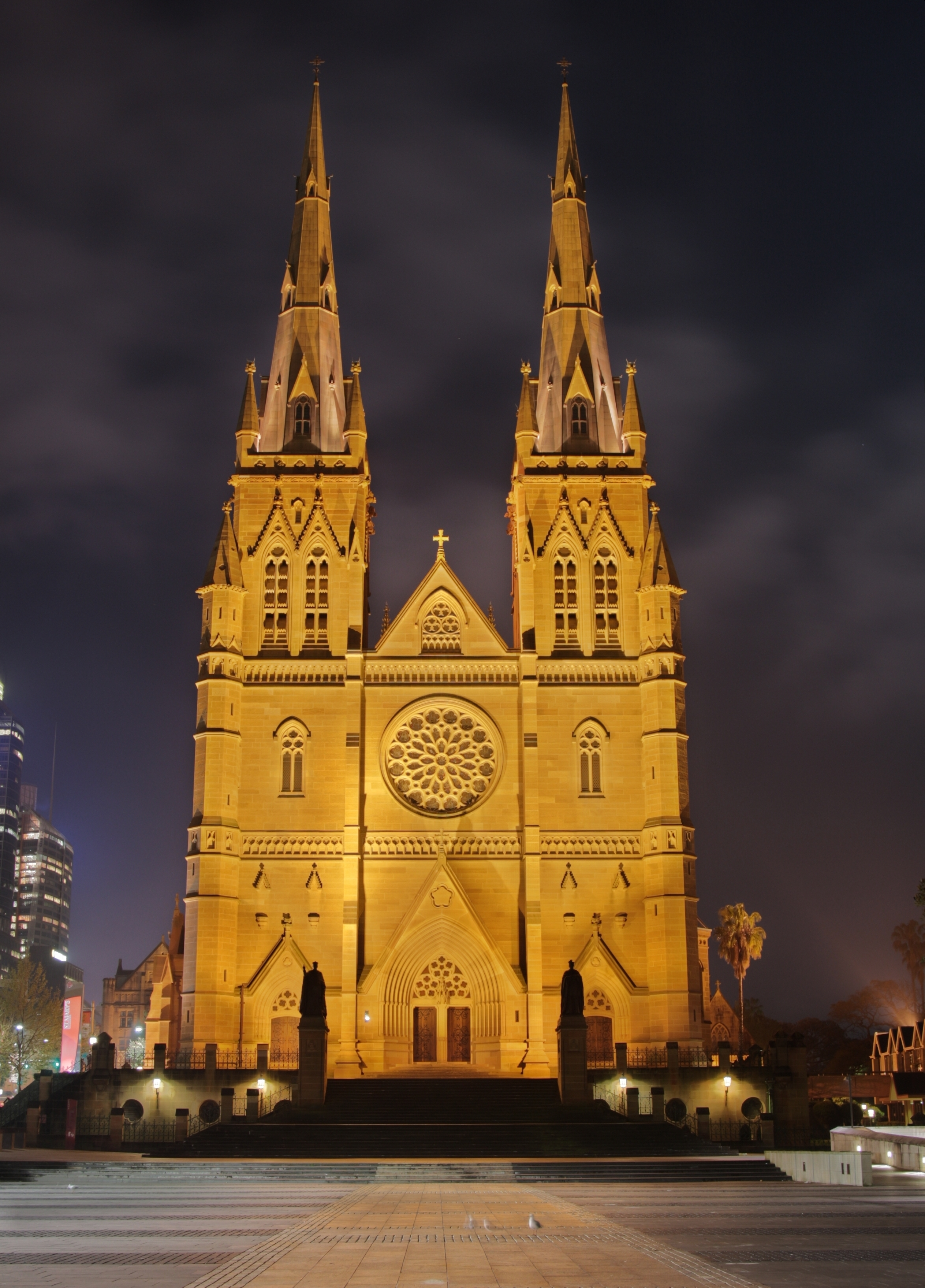 St Mary’s Cathedral is the seat of the Roman Catholic Archbishop of Sydney, currently Cardinal Archbishop George Pell. The cathedral is dedicated to “Mary, Help of Christians”, Patron of Australia. St Mary’s holds the title and dignity of a minor basilica, bestowed upon it by Pope Pius XI in 1930. It is the largest church in Australia, though not the highest. It is located on College Street in the heart of the City of Sydney where, despite the high rise development of the CBD, its imposing structure and twin spires make it a landmark from every direction. In 2008, St. Mary's Cathedral became the focus of World Youth Day 2008 and was visited by Pope Benedict XVI.